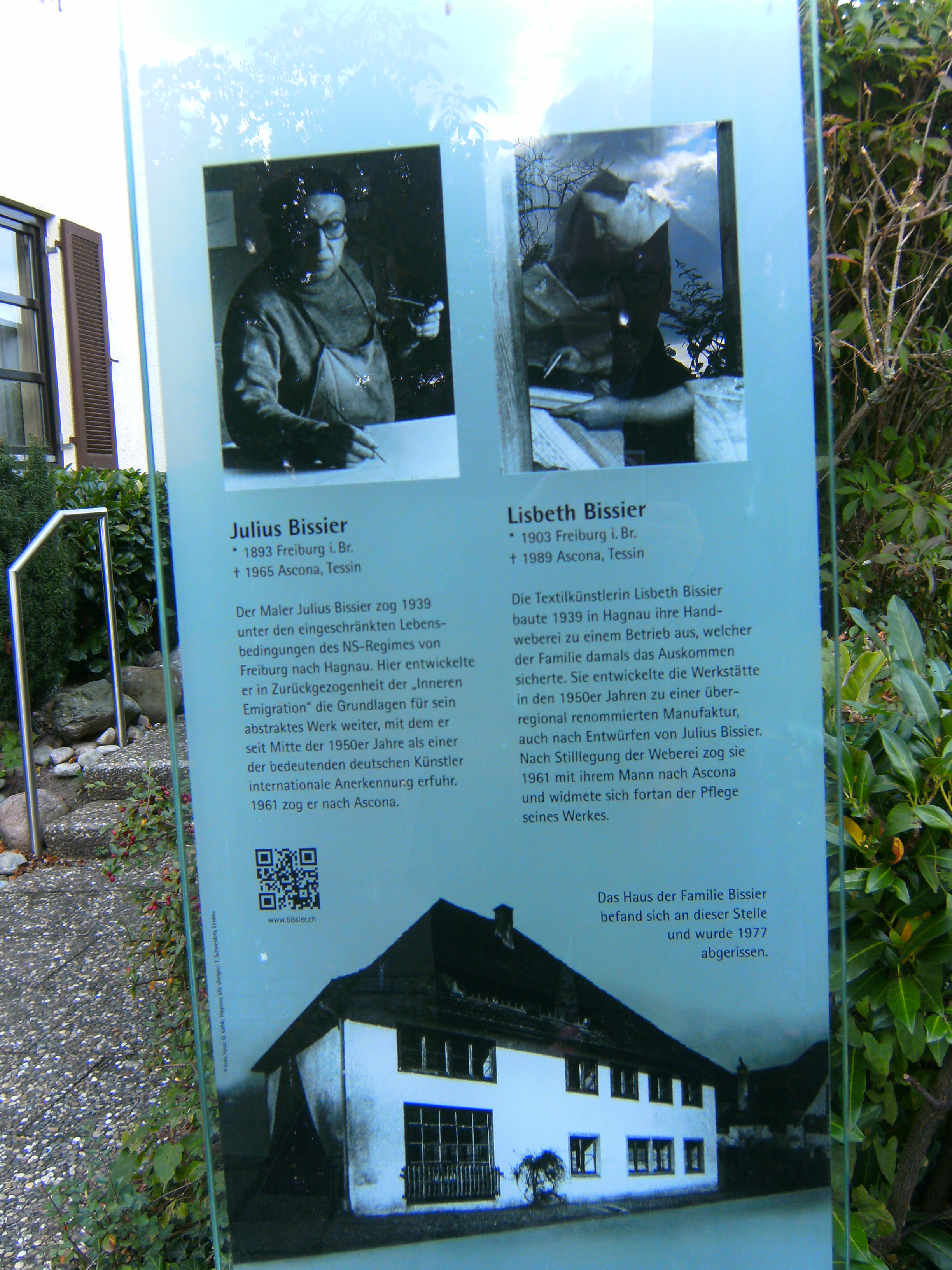 Hagnau am Bodensee, Germany, Seestraße. Plaque Julius Bissier.